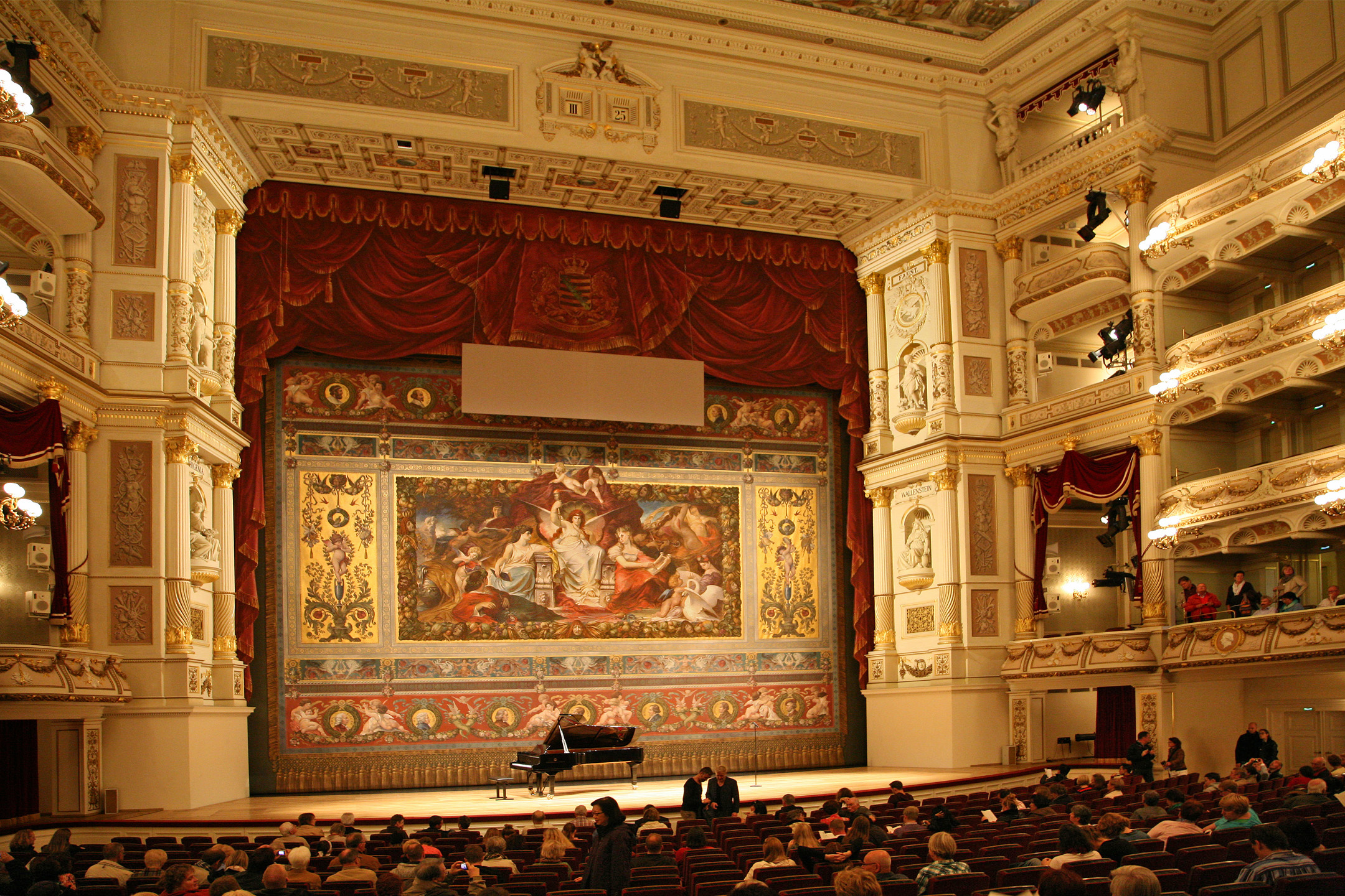 Opera hall of the Semperoper in Dresden, Germany.